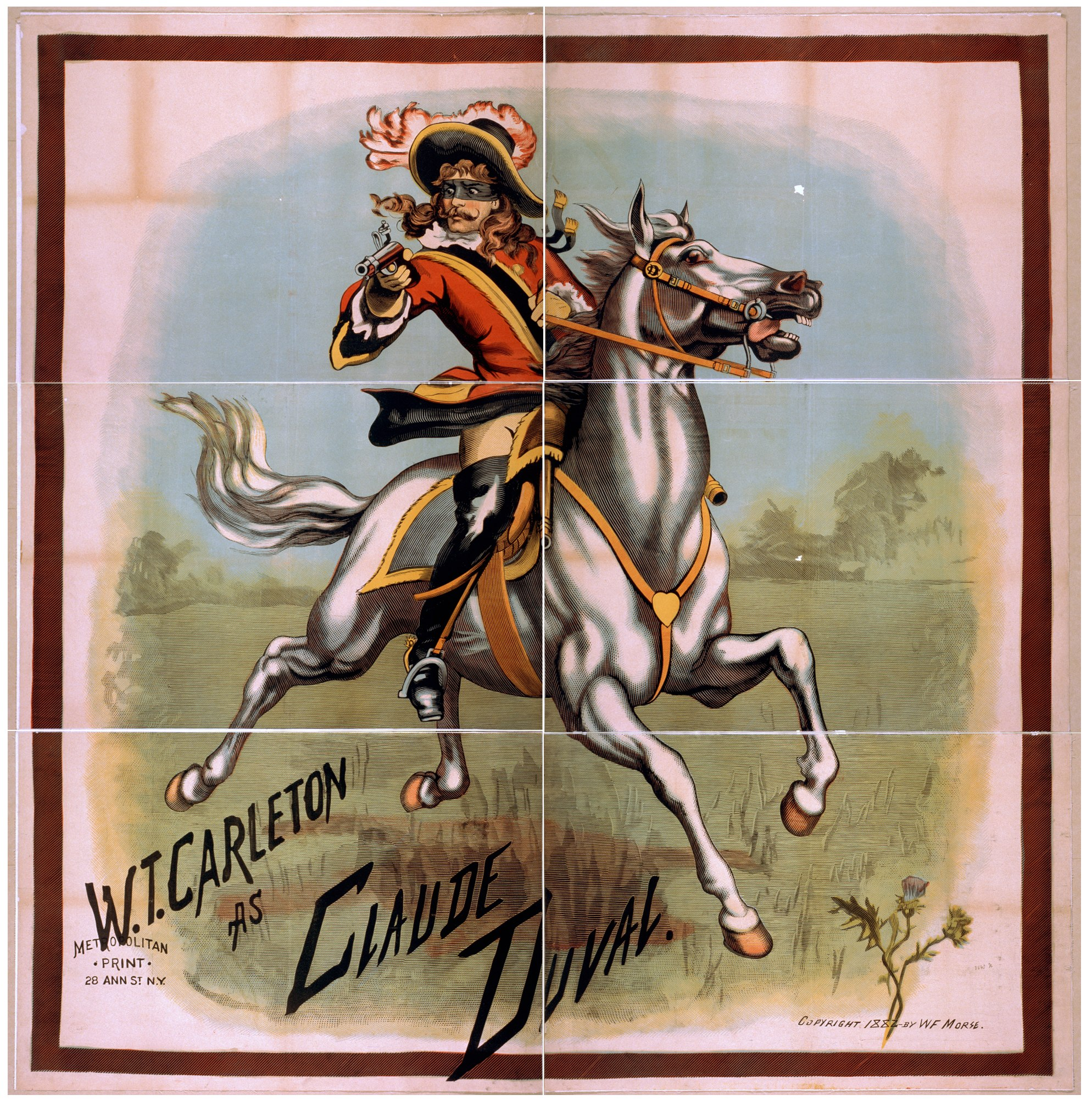 Title: W.T. Carleton as Claude Duval Abstract/medium: 1 print : color lithograph ; sheet 200 x 182 cm. (poster format)